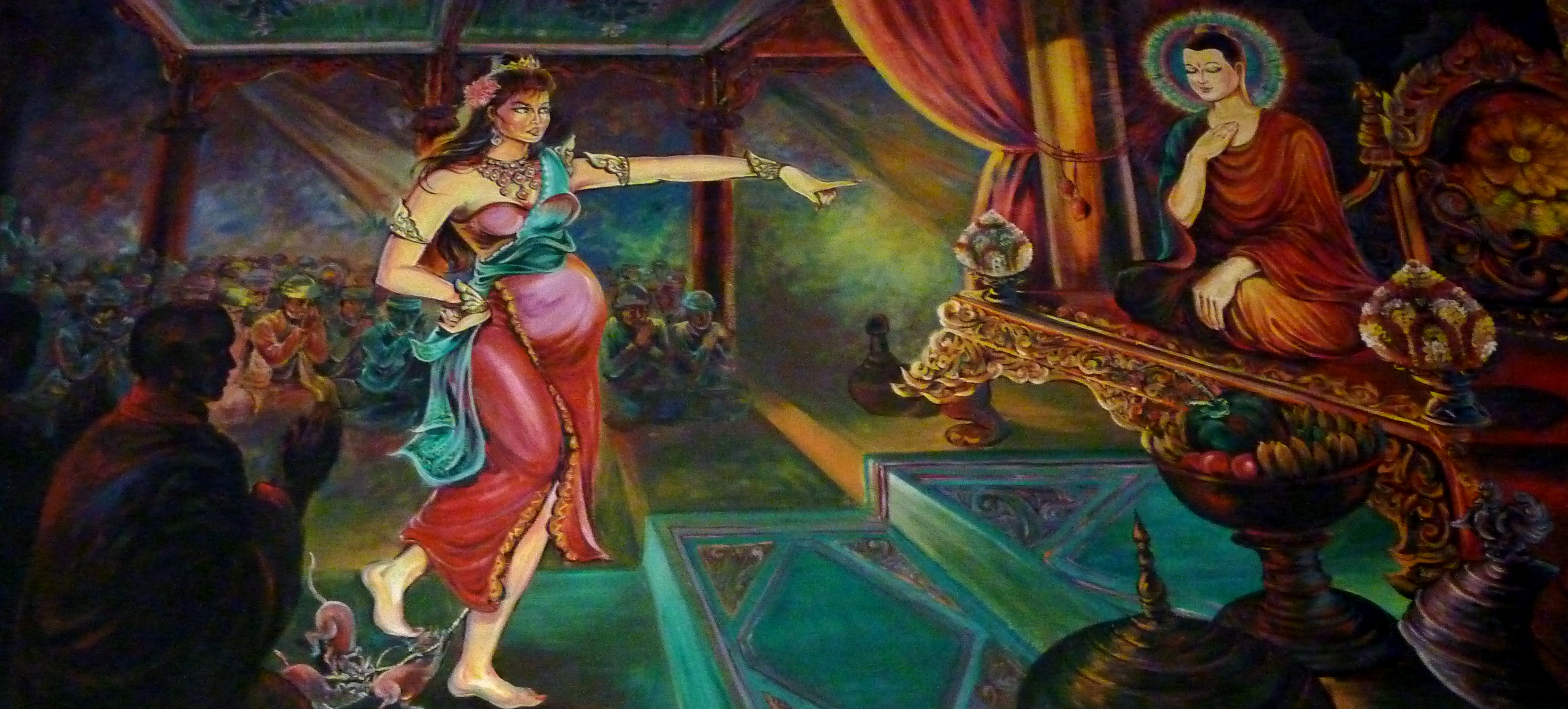 074 The Defeat of Cinca, at Wat Olak Madu, Kedah